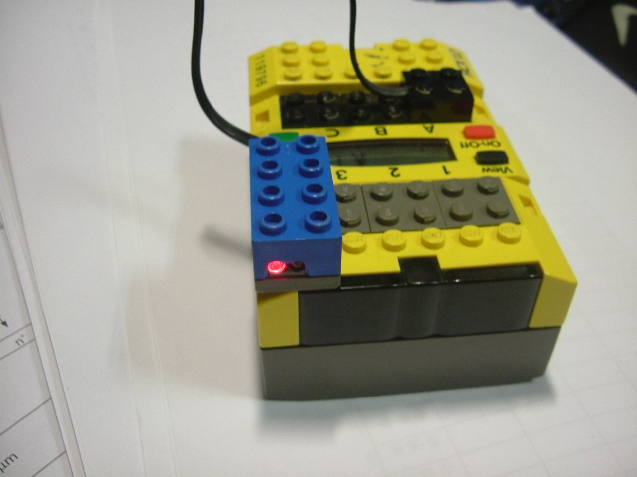 Lego RCX and Light Sensor